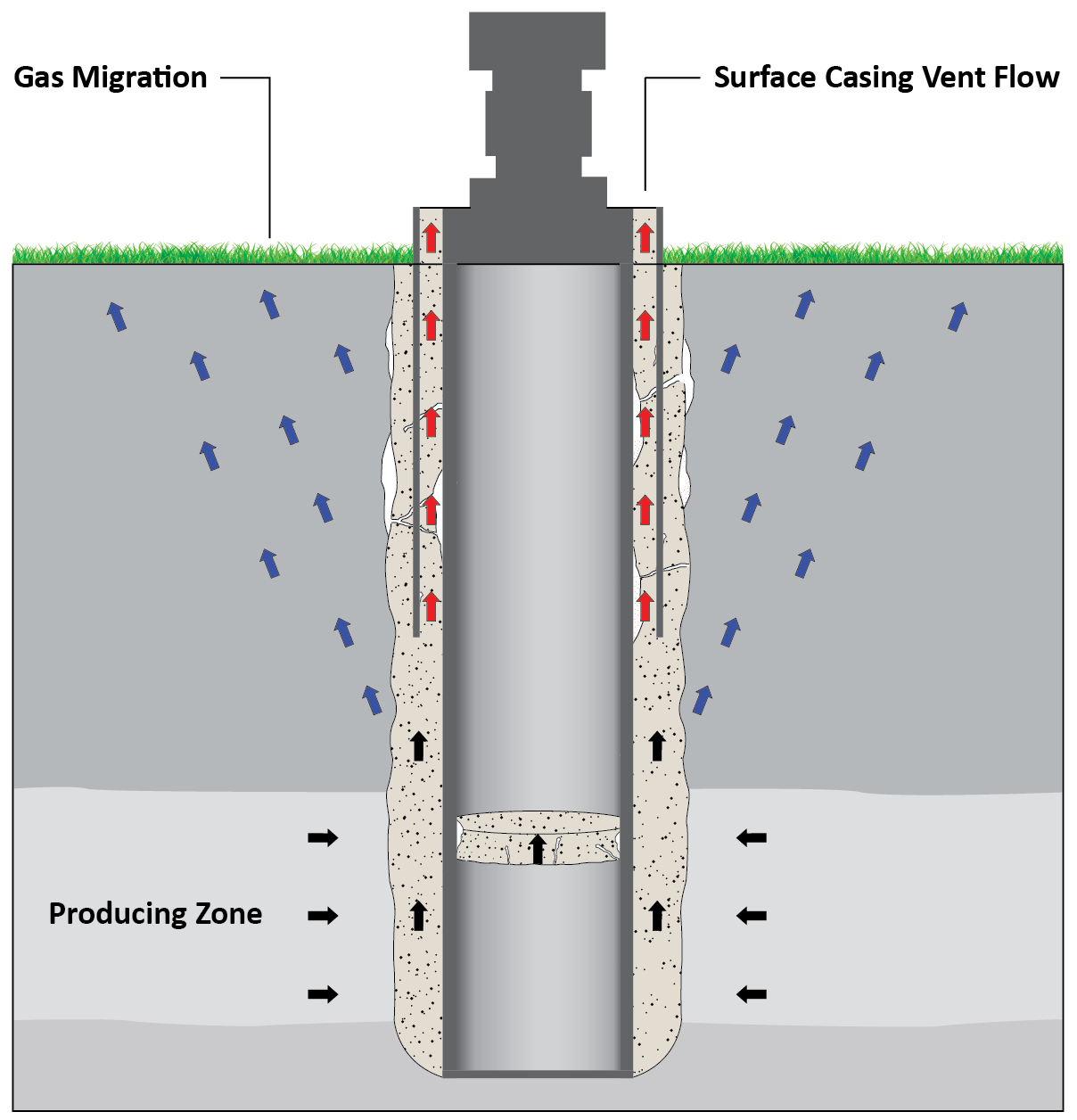 Surface Casing Vent Flow (SCVF) vs Gas Migration (GM)